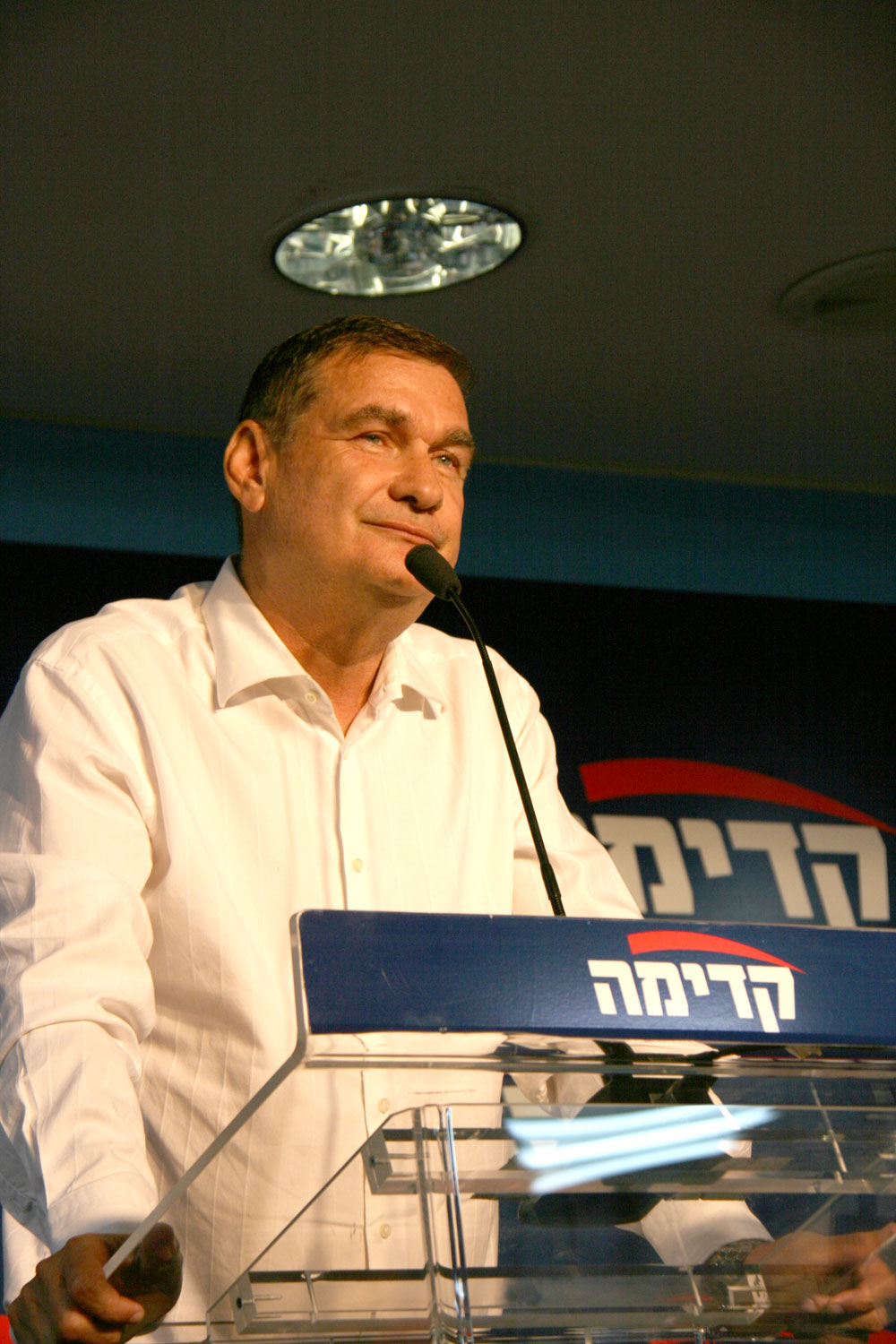 Haim Ramon, Kadima Party (Israel). Photo by: Itzik Edri, Kadima Party PR Team